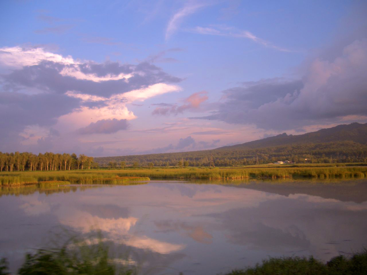 Taken from the bus between Rishikesh and Dharamsala.